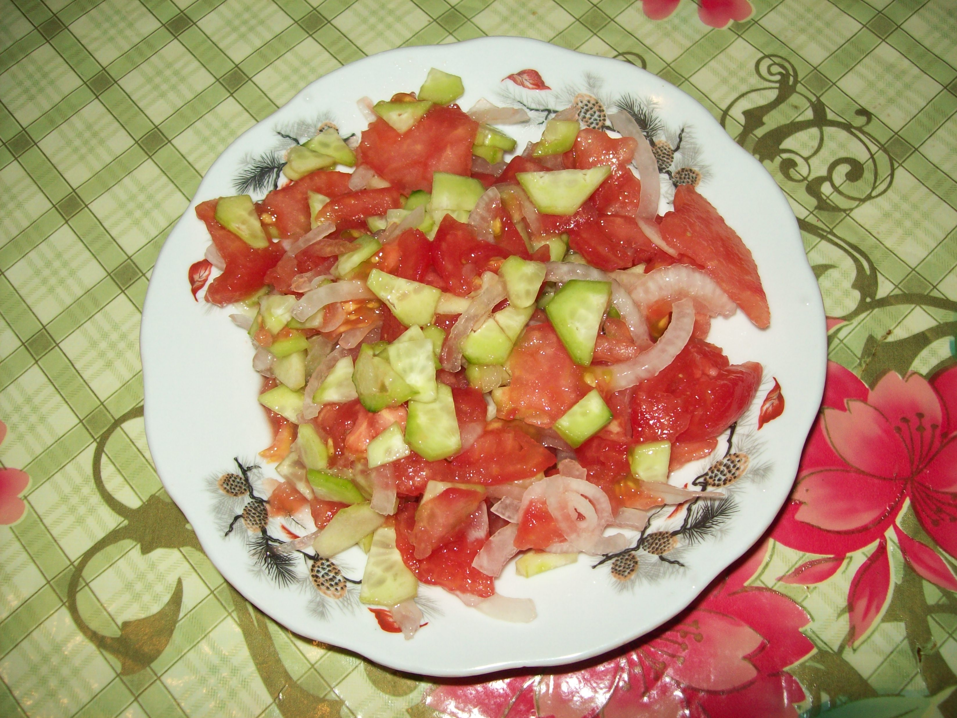 Uzbek Achichik-Chuchuk salad prepared with tomato, cucumber, and onion